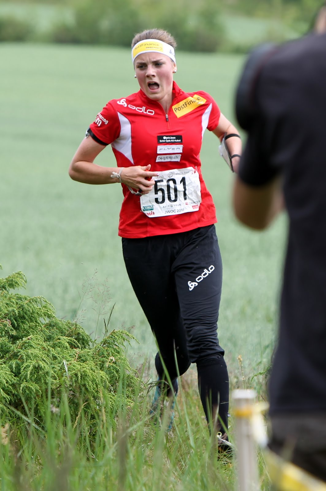 Sarina Jenzer (SUI) Junior Orienteering Championships 2010